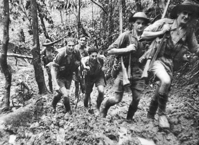 AWM Caption: Some members of D Company, 39th Battalion, returning to their base camp after a battle at Isurava. Right to left: Warrant Officer 2 R. Marsh, Privates G. Palmer, J. Manol, J. Tonkins, A. Forrester and Gallipoli veteran Staff Sergeant J. Long. Their shoes sink deep in the mud on the hilly jungle track.